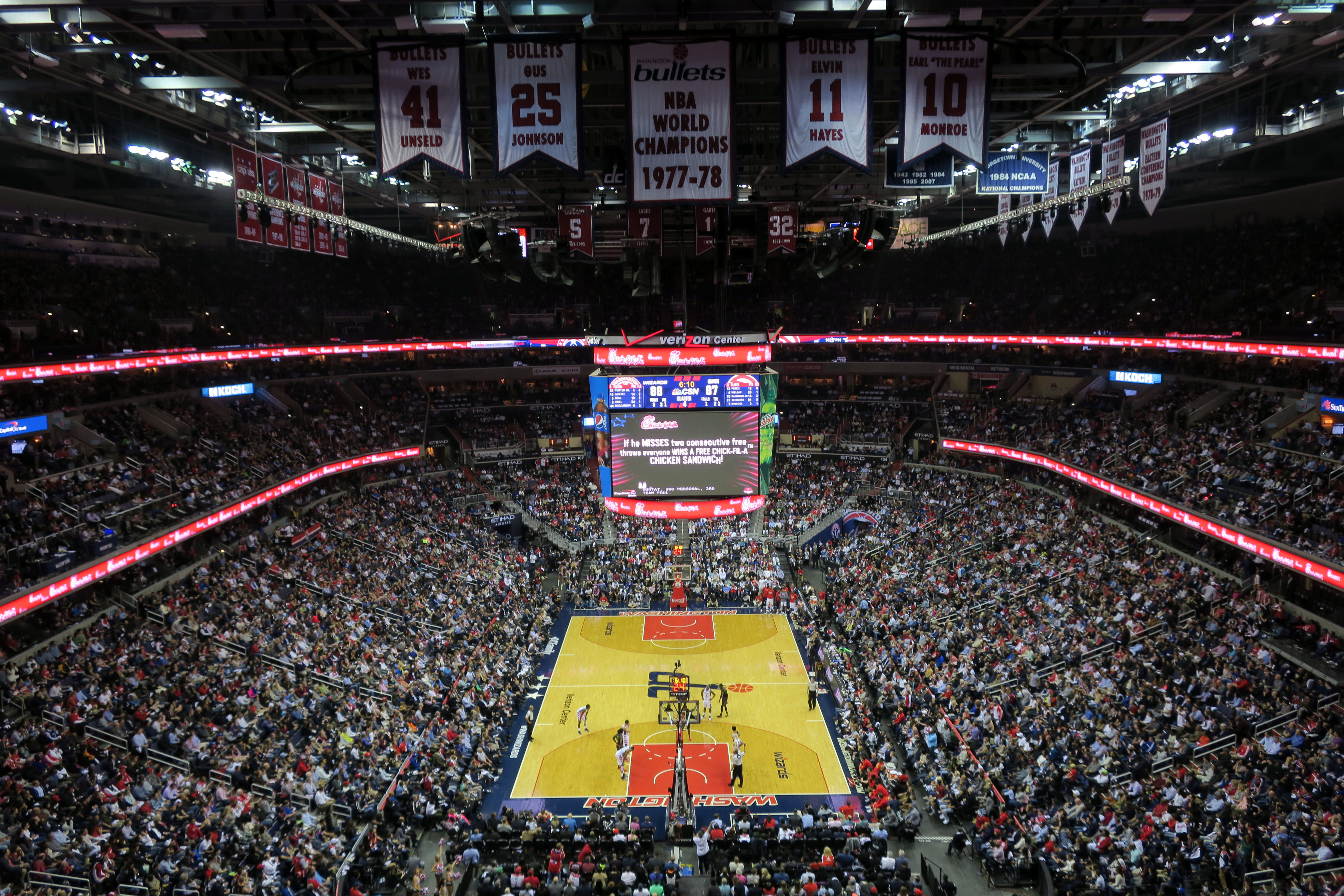 Playoffs